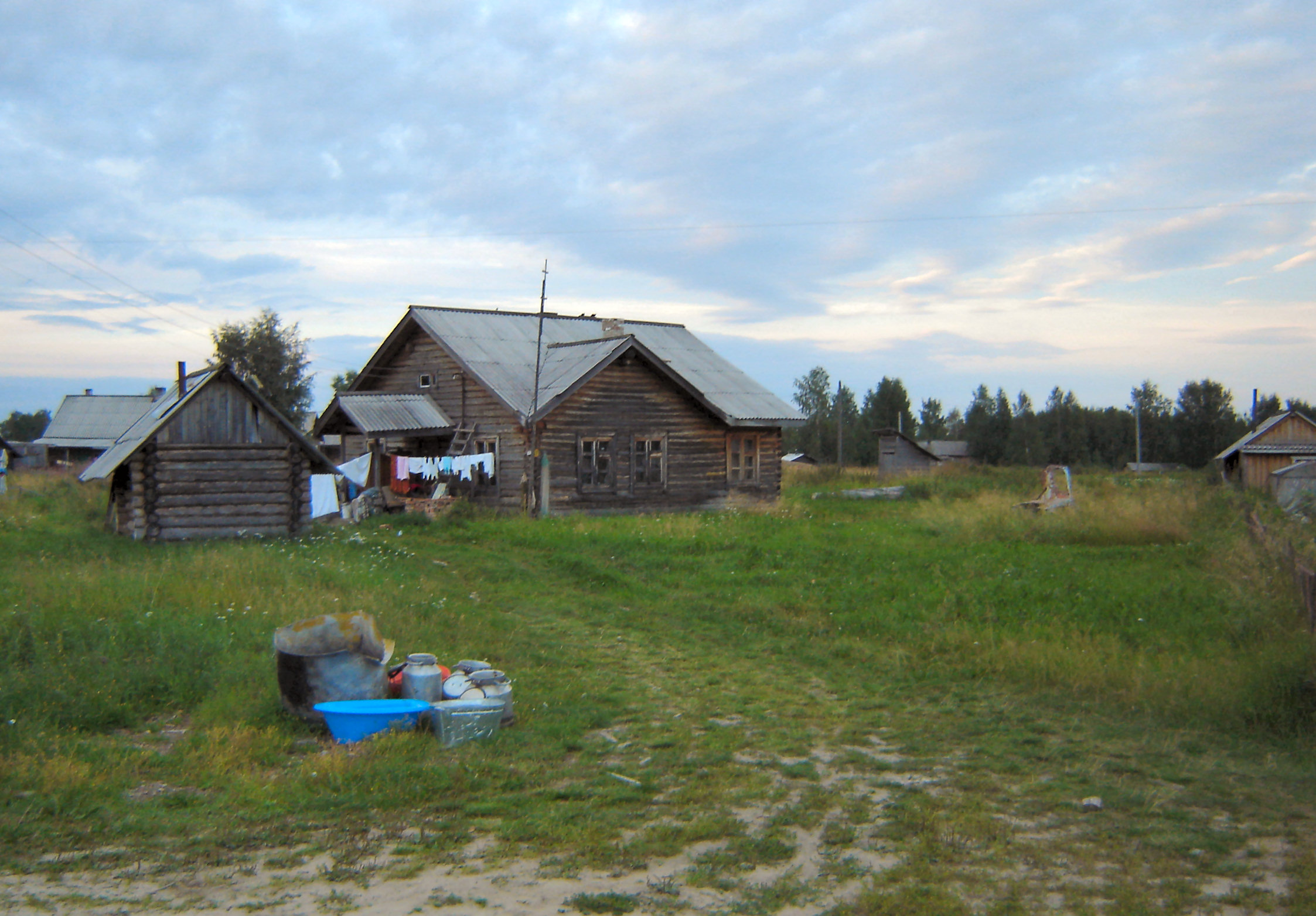 Vuokkiniemi, Karelia, Russia Vuokkiniemi was one of the villages, where Elias Lönnrot compiled the Finnish national epic 'Kalevala'. Source: Self-made, August 2005 Author: BishkekRocks